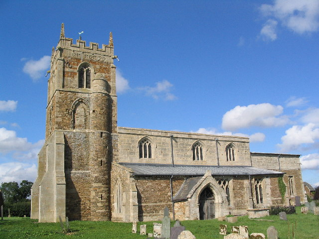 Church of St Michael and All Angels, Edmondthorpe. Open under the Historic Churches Preservation Trust, with interesting tombs and memorials inside.